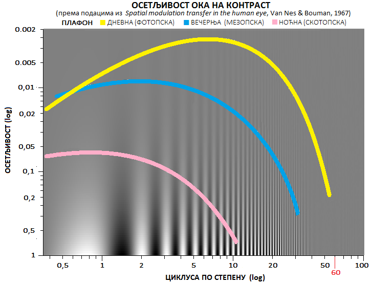 ФУНКЦИЈА ОСЕТЉИВОСТИ ОКА